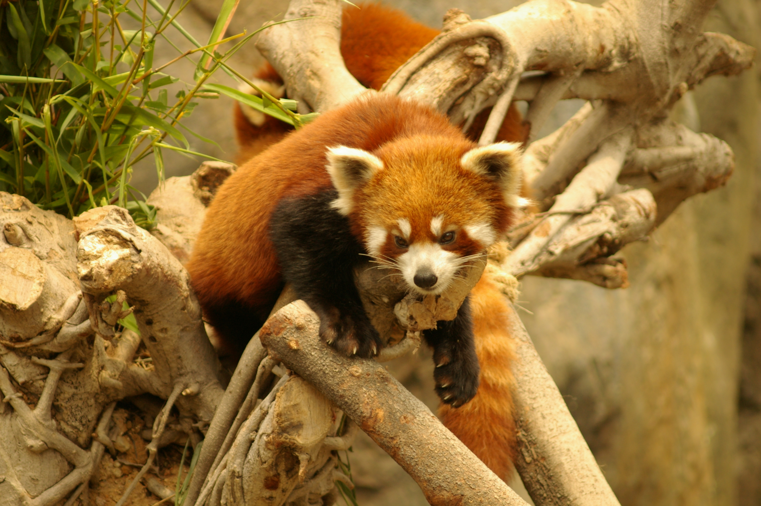 Red panda in Hong Kong Ocean Park 中文（香港）: 香港海洋公園的小熊貓